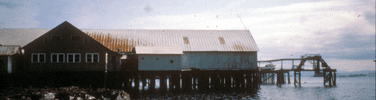 The Kake Cannery in Kake, Alaska, United States, is listed on the US National Register of Historic Places and is a designated National Historic Landmark.